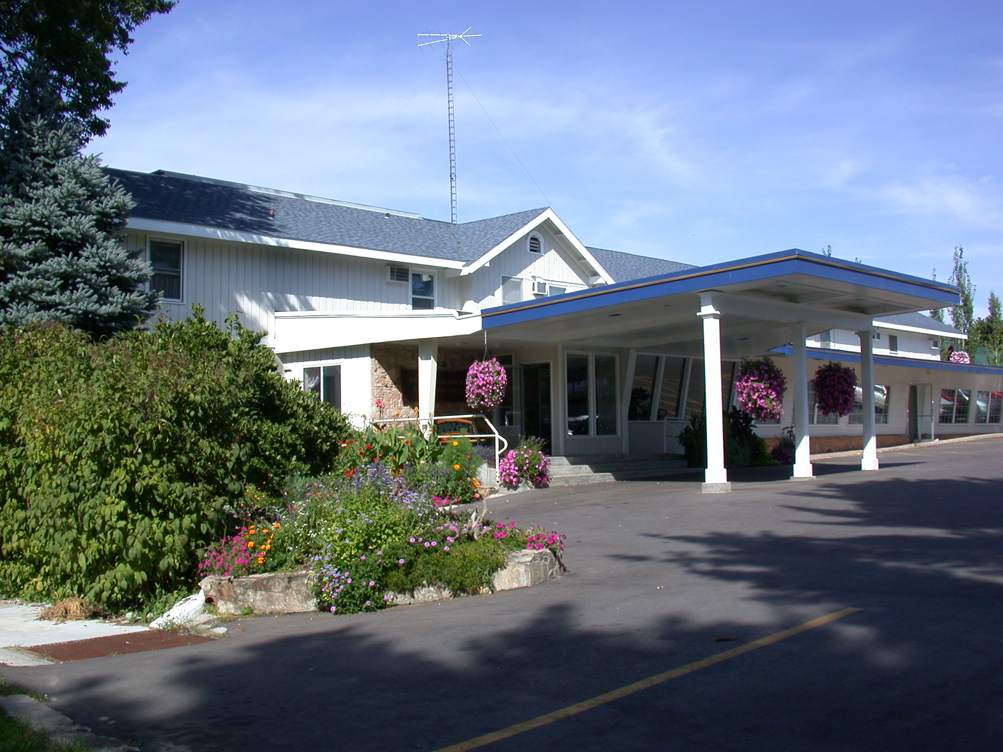 Logo Endeavor Academy, part of New Cristian Church Of Full Endeavor